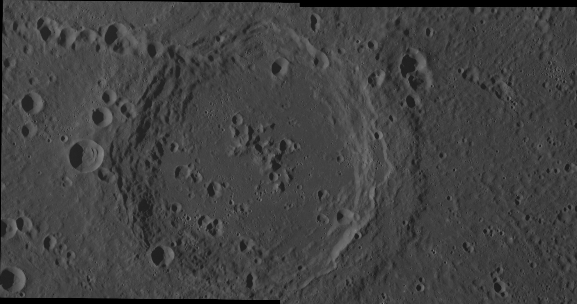 Mosaic of two MESSENGER WAC images showing Kerouac crater on Mercury. Emission Angle: 4 Incidence Angle: 72.5 Latitude: 25.3 Longitude: 129 Phase Angle: 76.5